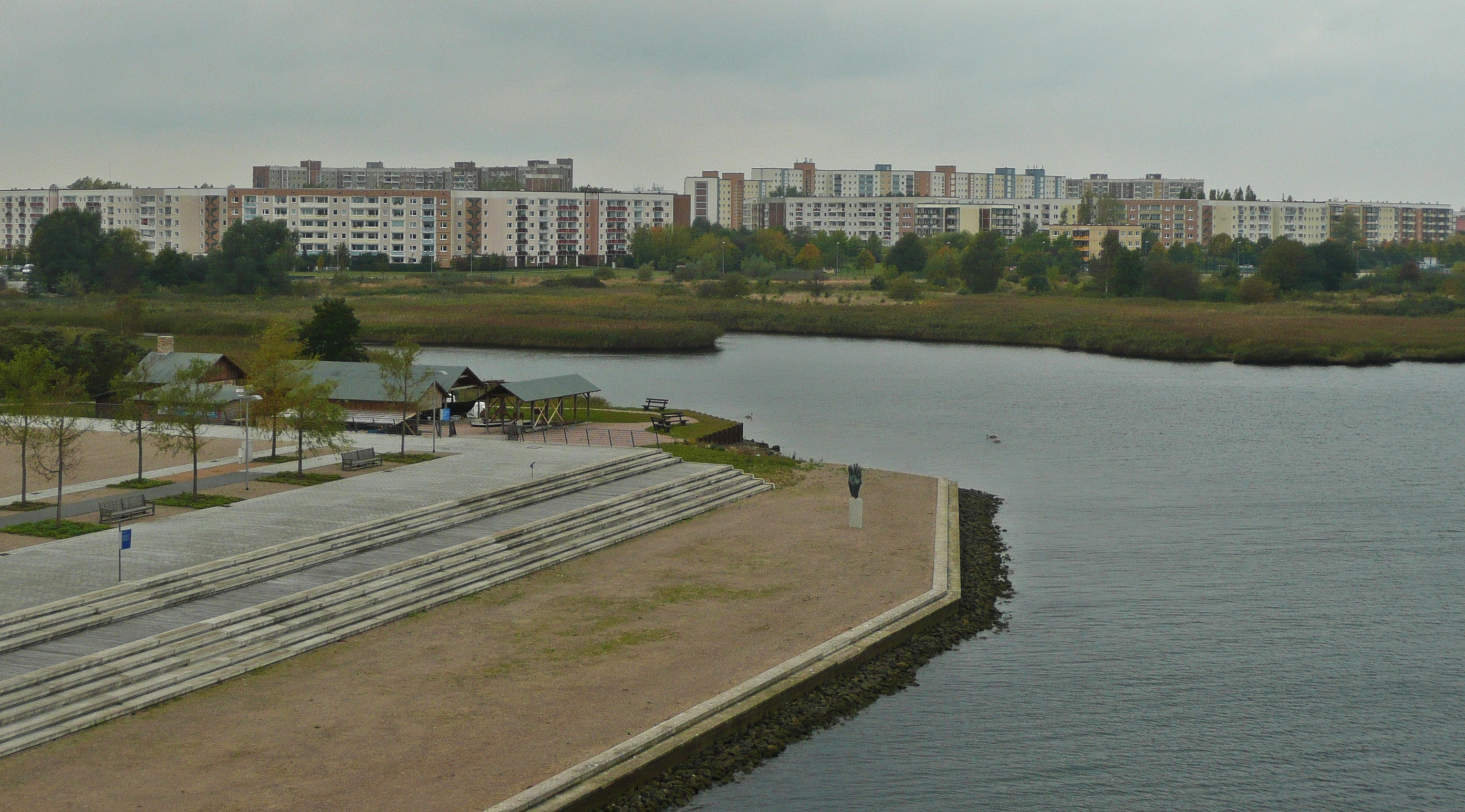 view on Groß Klein, a district of Rostock.